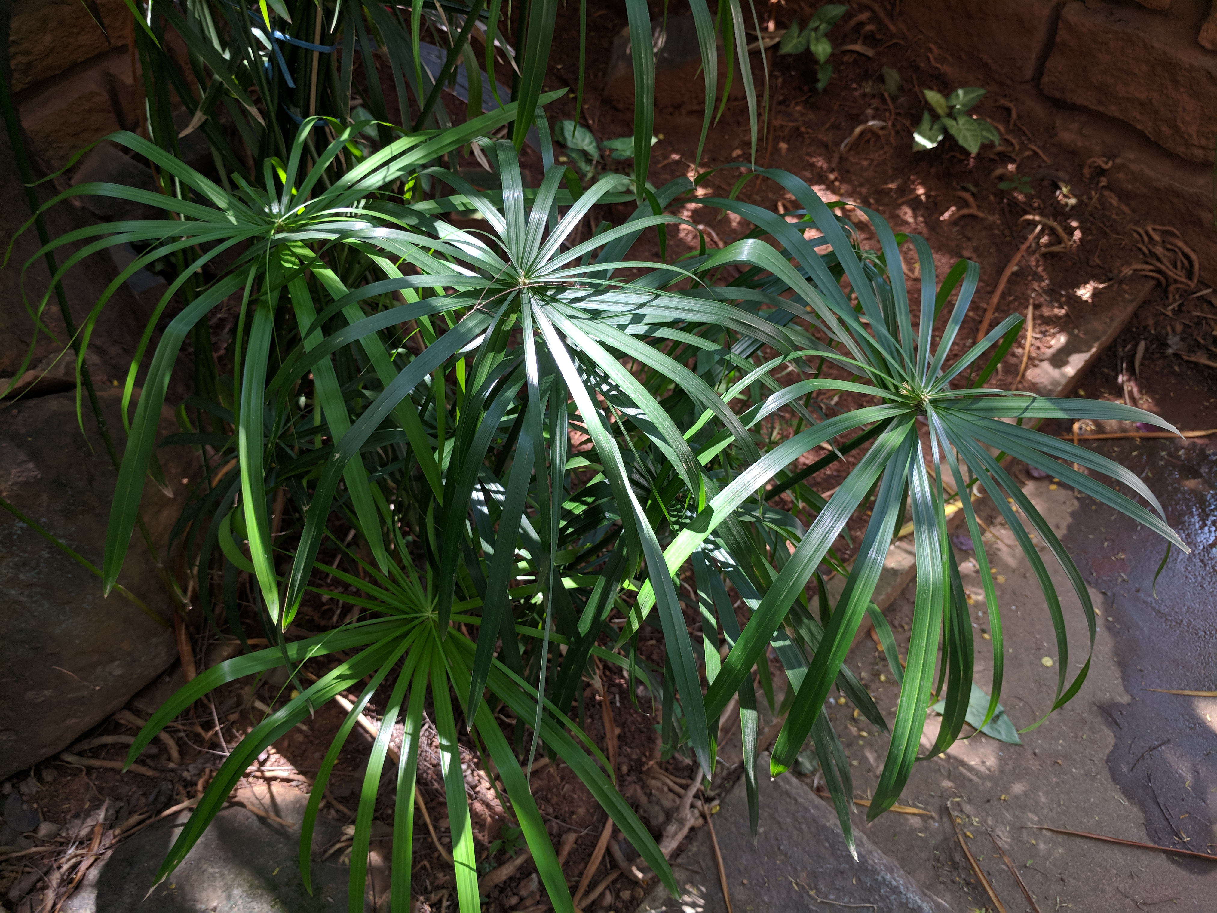 Cyprus sp